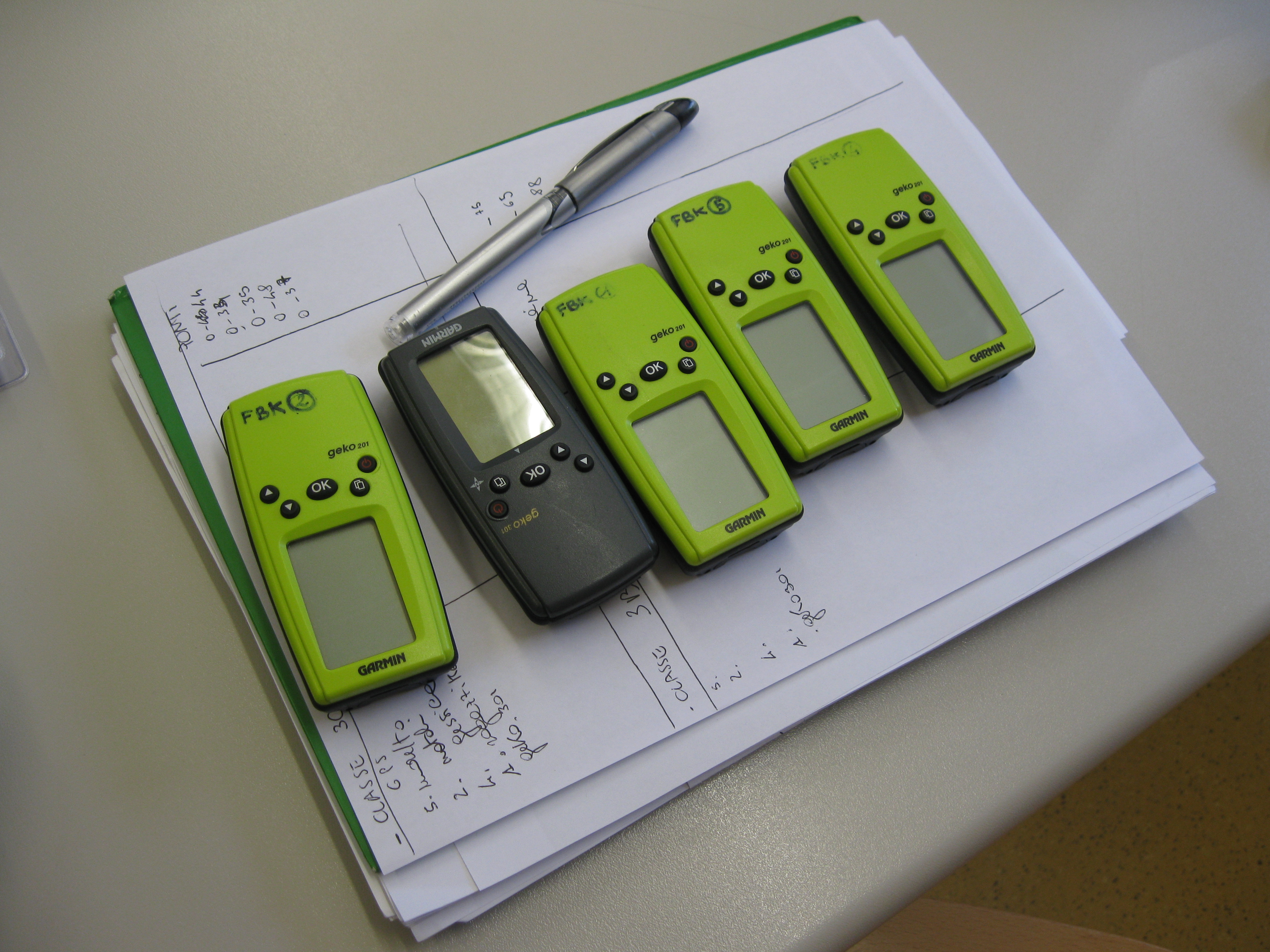 Garmin Gekos used at a mapping event at CTS Einaudi, Bolzano, Italy. Taken by Flickr user krpamayii.